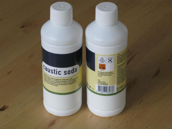 Drain cleaner as sold in the hardware shop which contains 99+% NaOH.